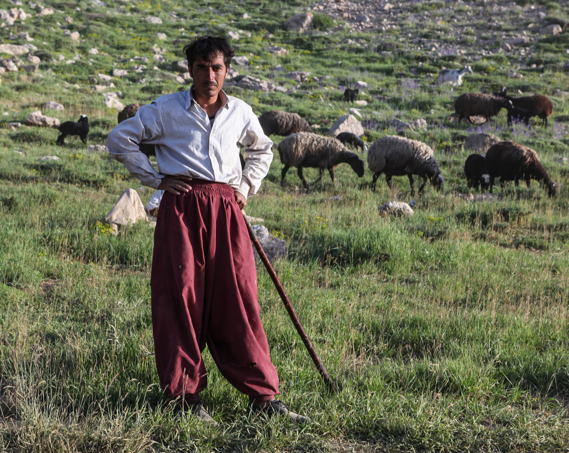 Dasht-e Lar, Iran Lar Plain. The distance to Tehran is 70 km. The plain is the biggest valley of Iran. Afghans in Iran often work in poorly paid jobs. WP: The Government of Iran estimated in 2015 that 2.5 million Afghans live in Iran, which includes the registered and illegals as well as those who entered the country with Afghan passports and Iranian visas. Most of the Afghan refugees are illegally in Iran. Some of them voluntarily return to Afghanistan, but a large number of refugees are deported back to Afghanistan.